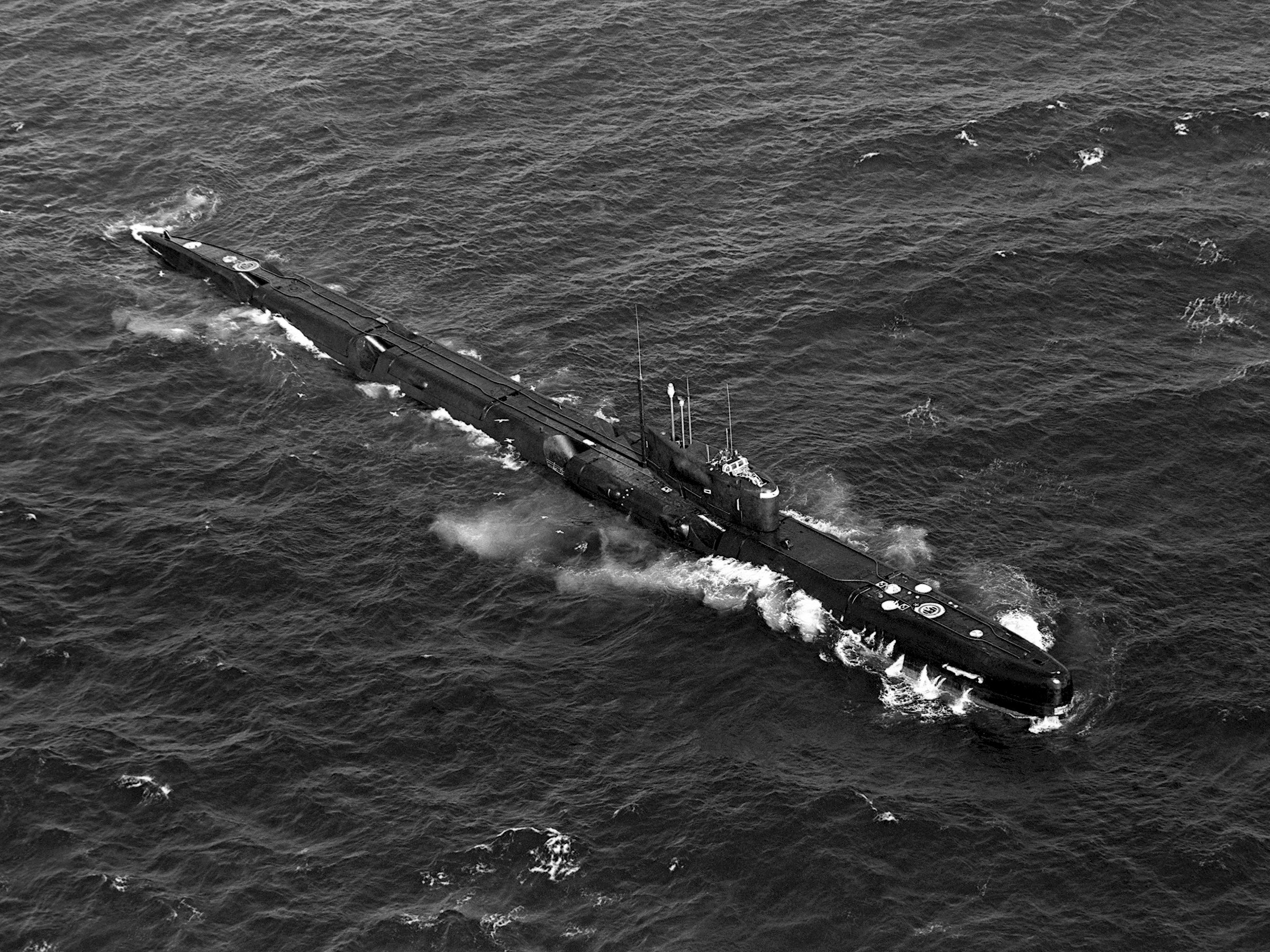 A starboard bow view of a Soviet modified Echo II Class Cruise missile submarine underway.